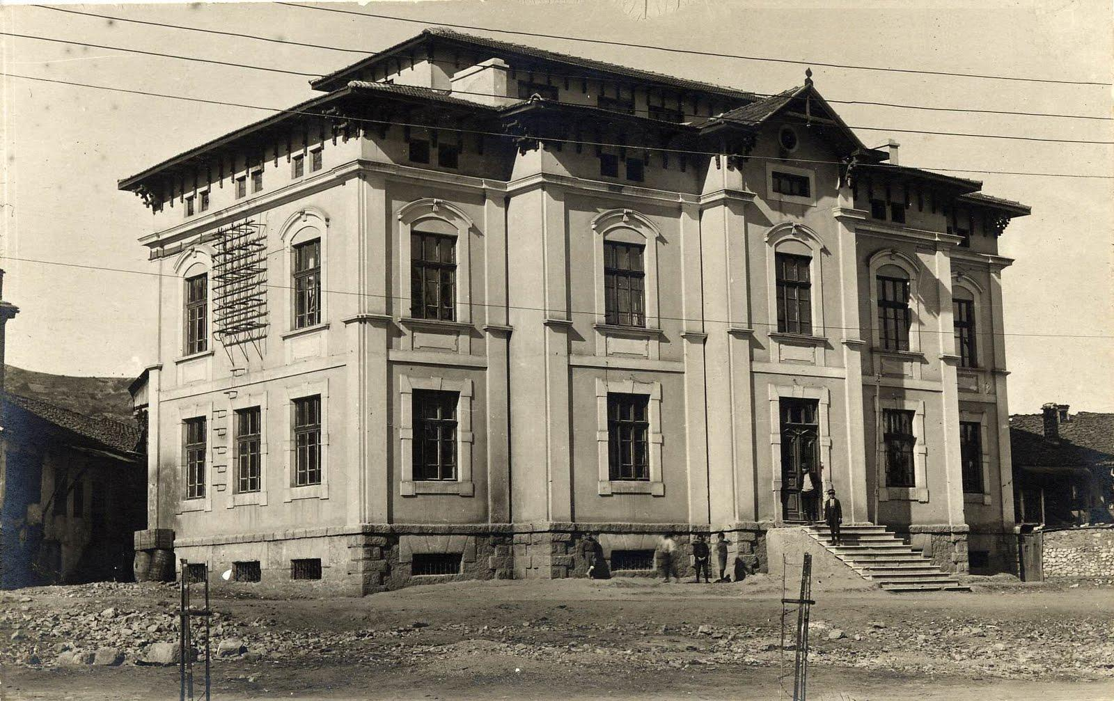 Bulgarian school in Lerin or Florina